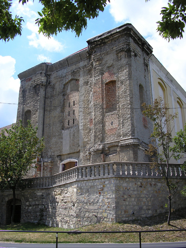 Kiscell Museum, Budapest. The building of the museum (ex-church).